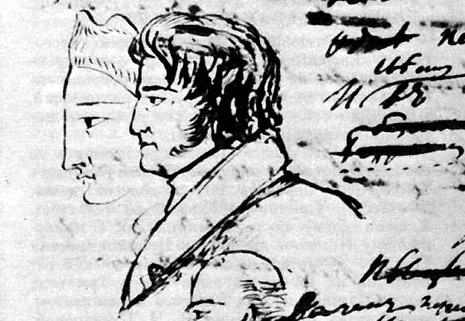 Count Feodor Ivanovich Tolstoy